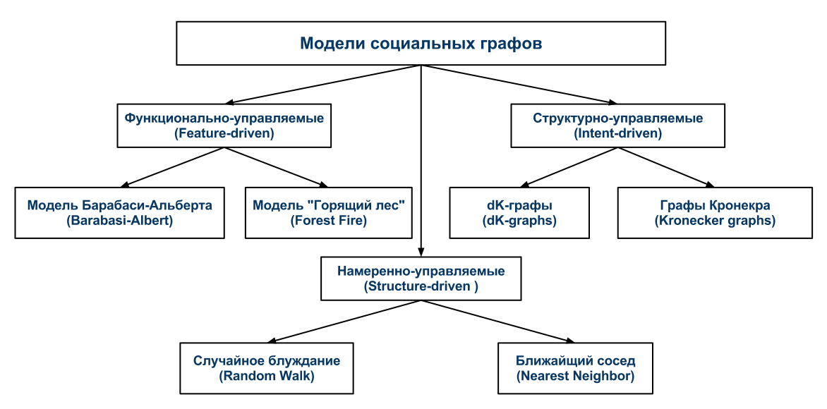 The figure shows six well-known graph models which are devided into three classes based on their methodology. The idea was taken from paper Measurement-calibrated Graph Models for Social Network Experiments written by A. Sala, L. Cao, C. Wilson, R. Zablit,H. Zheng and B. Y. Zhao URL